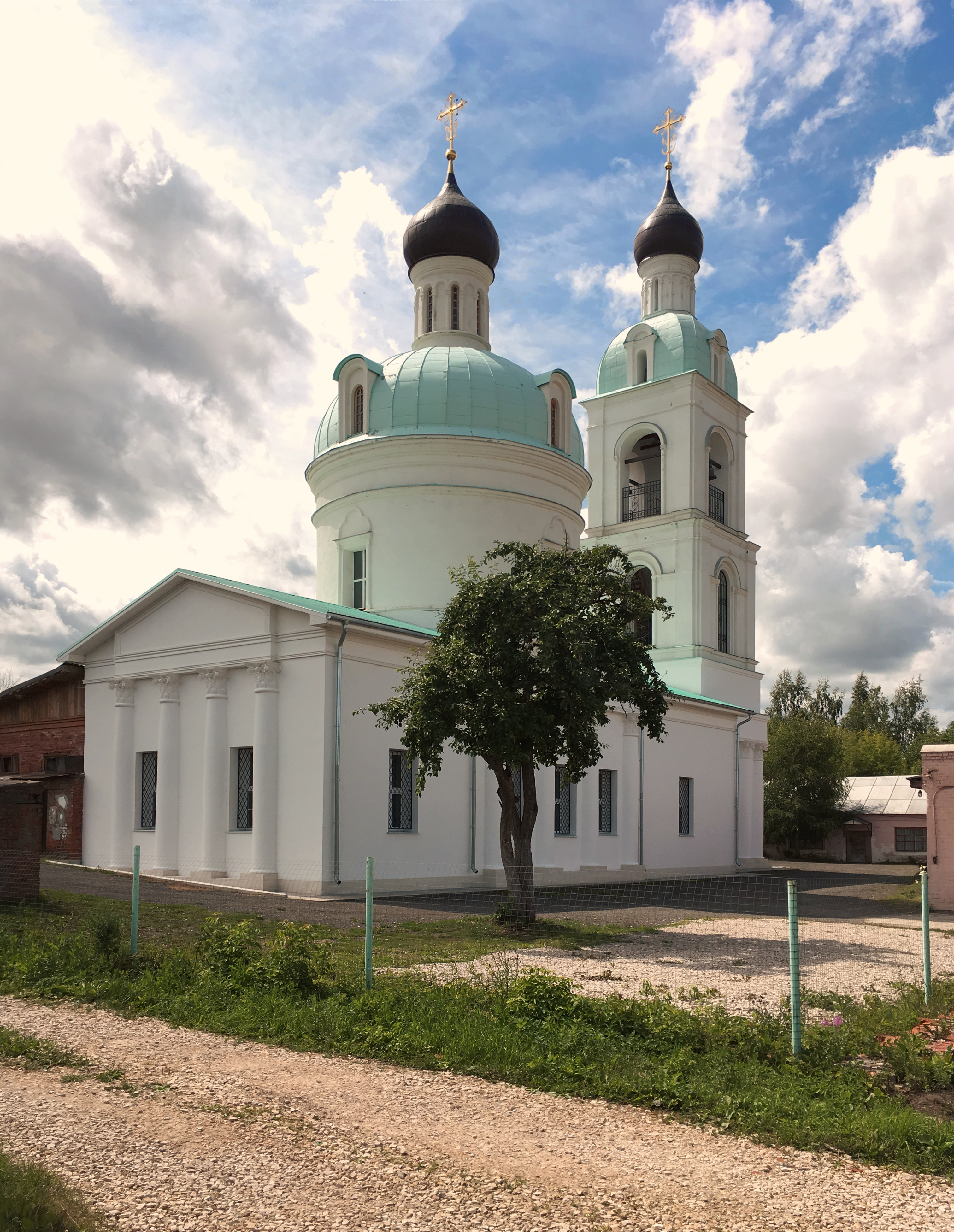 Church of St. Nicholas the Wonderworker (Moscow Diocese of the Russian Orthodox Church) in Lukyanovo, 2019